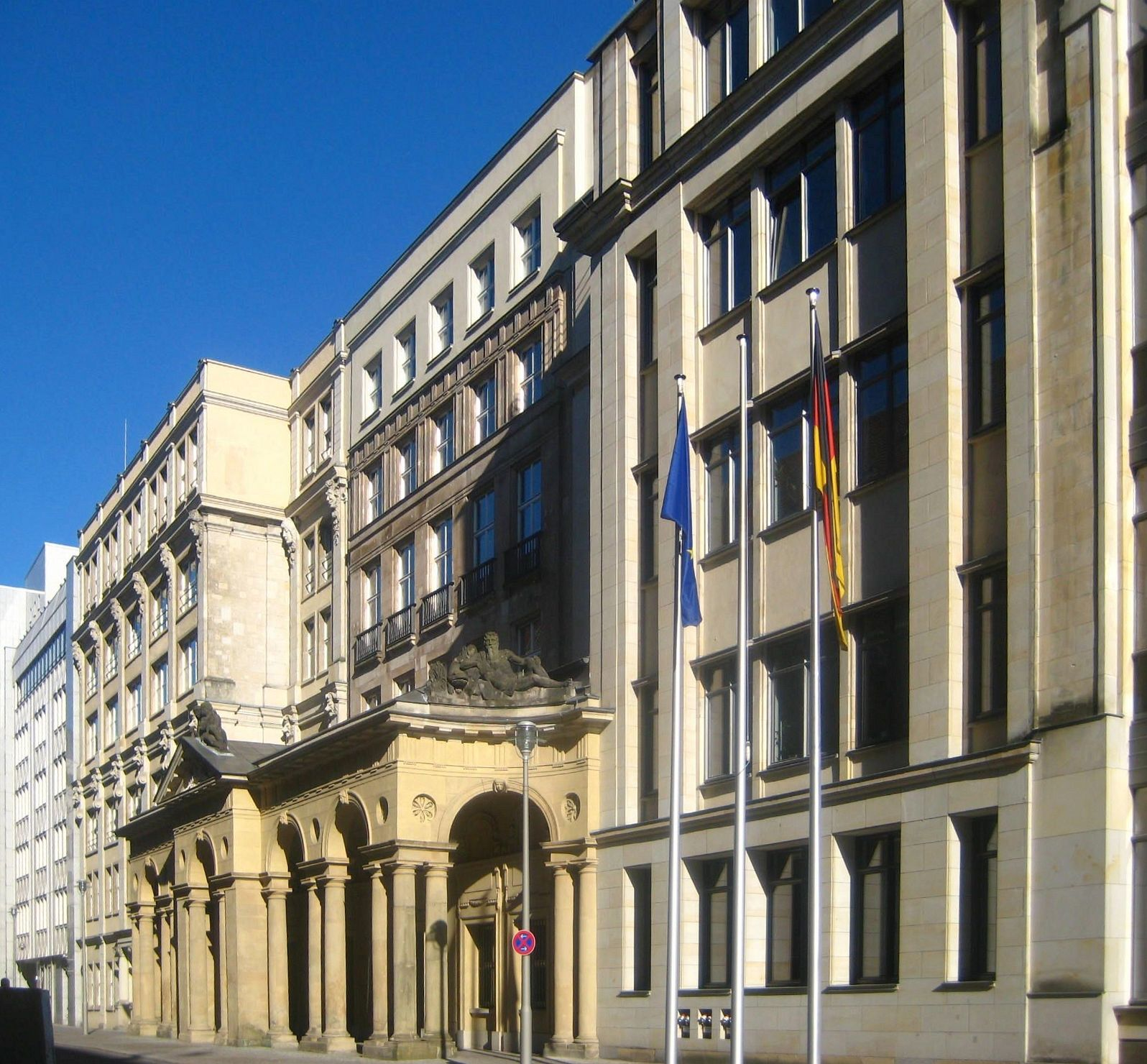 The German Federal Ministry of Justice at Mohrenstraße No. 37 in Berlin-Mitte. The building was constructed from 1912 to 1913 as commercial building "Prausenhof" to a design by Ludwig Otte. In front of the building is the southernpart of the Mohren Colonnades, built in 1787 by Carl Gotthard Langhans.